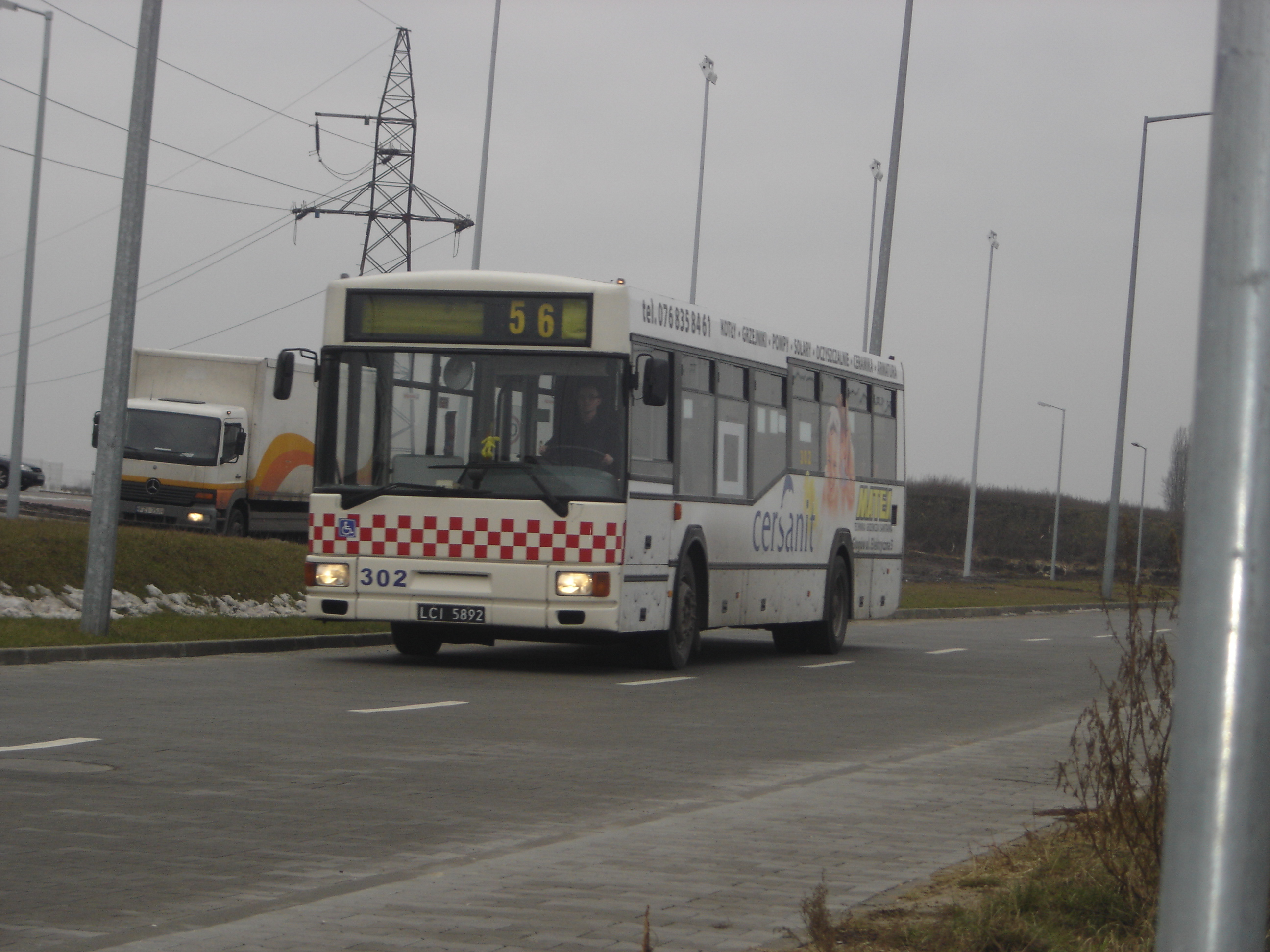 Jelcz M121M bus (#302) in Głogów, Poland. Built 1996, KM Głogów operator.